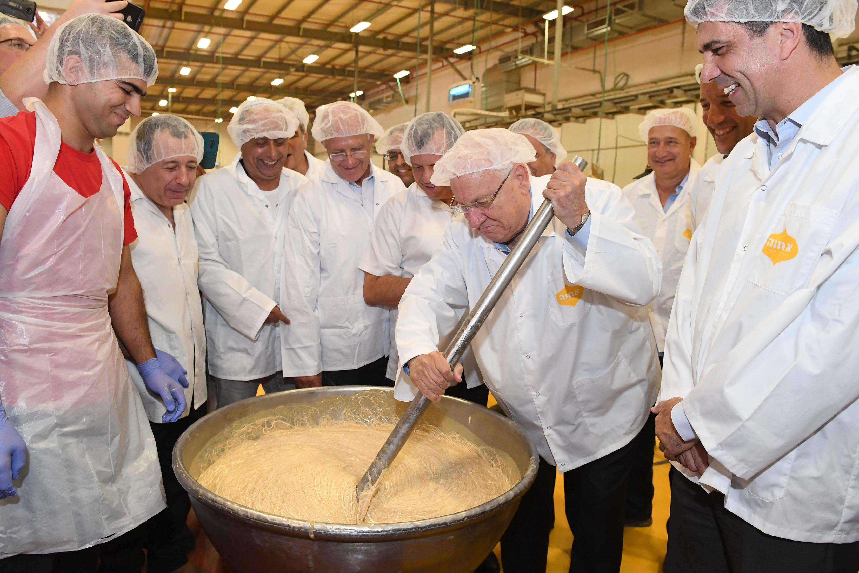 President of the State of Israel, Reuven Rivlin, on a visit to the industrial zone in Ariel, where he met with mayors, heads of the Yesha Council and industrialists, and toured the Achva factory Thursday, August 31, 2017. Photo Credit: Mark Neyman / GPO.